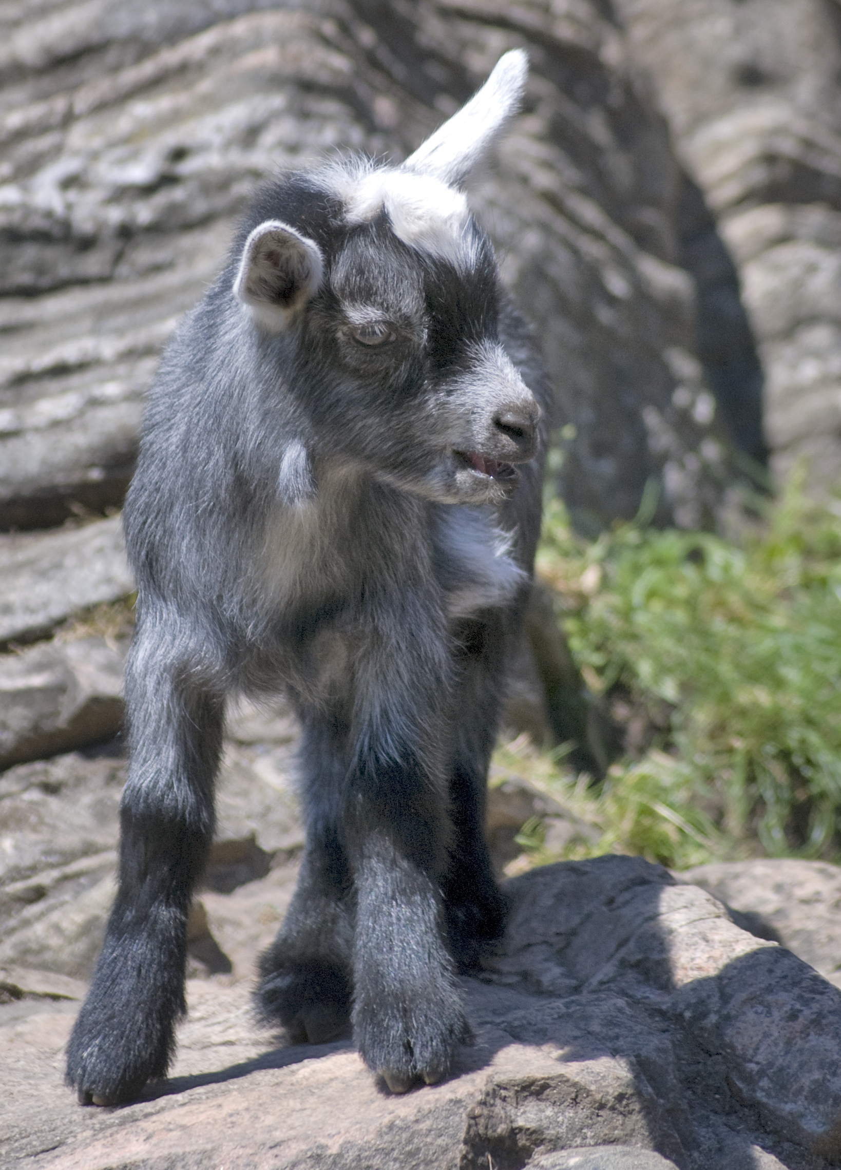 Baby goat